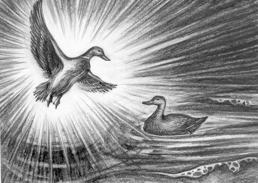 In mari mythology, Kugu-Jumo, is a god of sky, weather, crops (harvest) and other natural things.